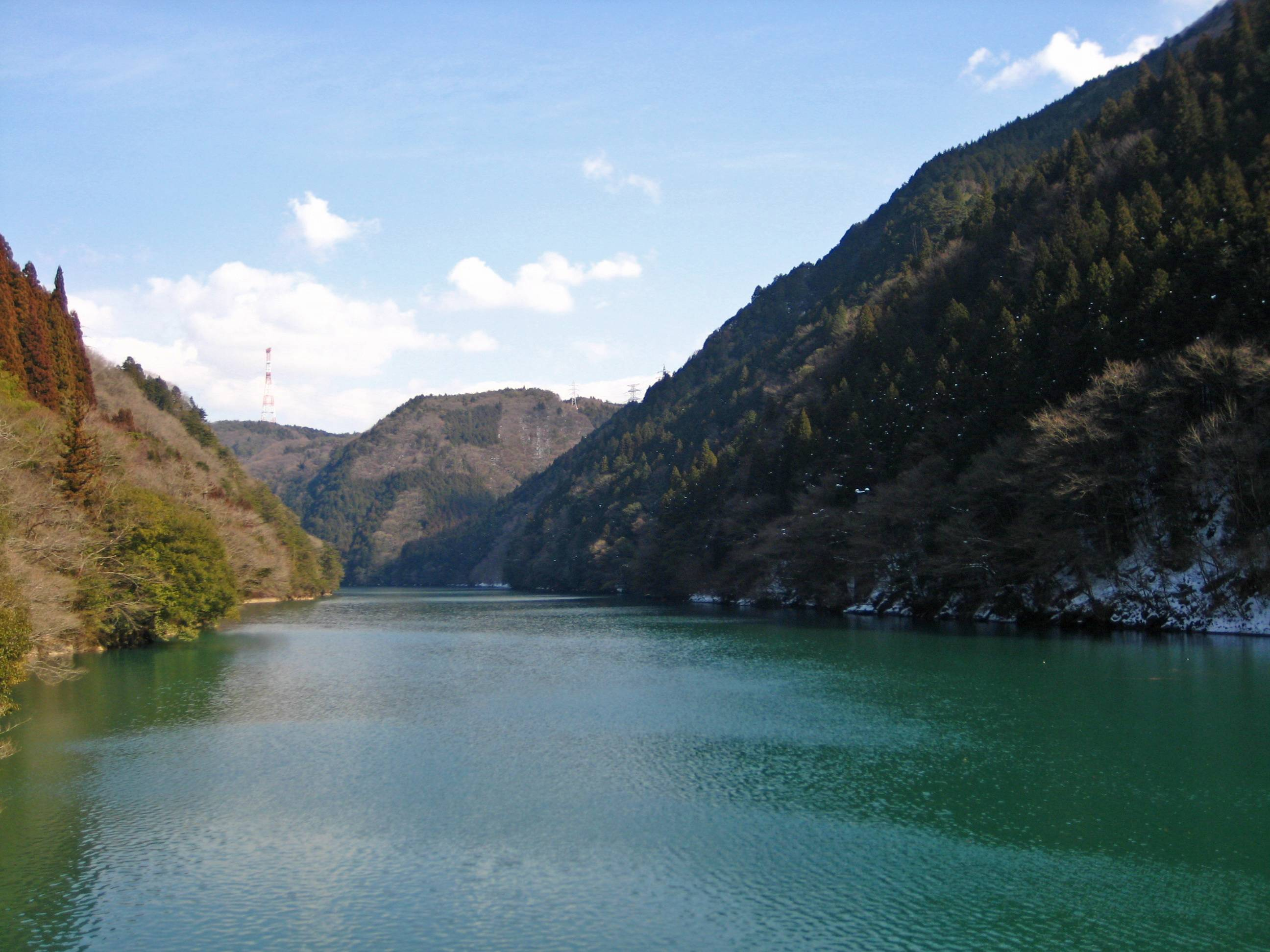 Kasagi Dam lake.